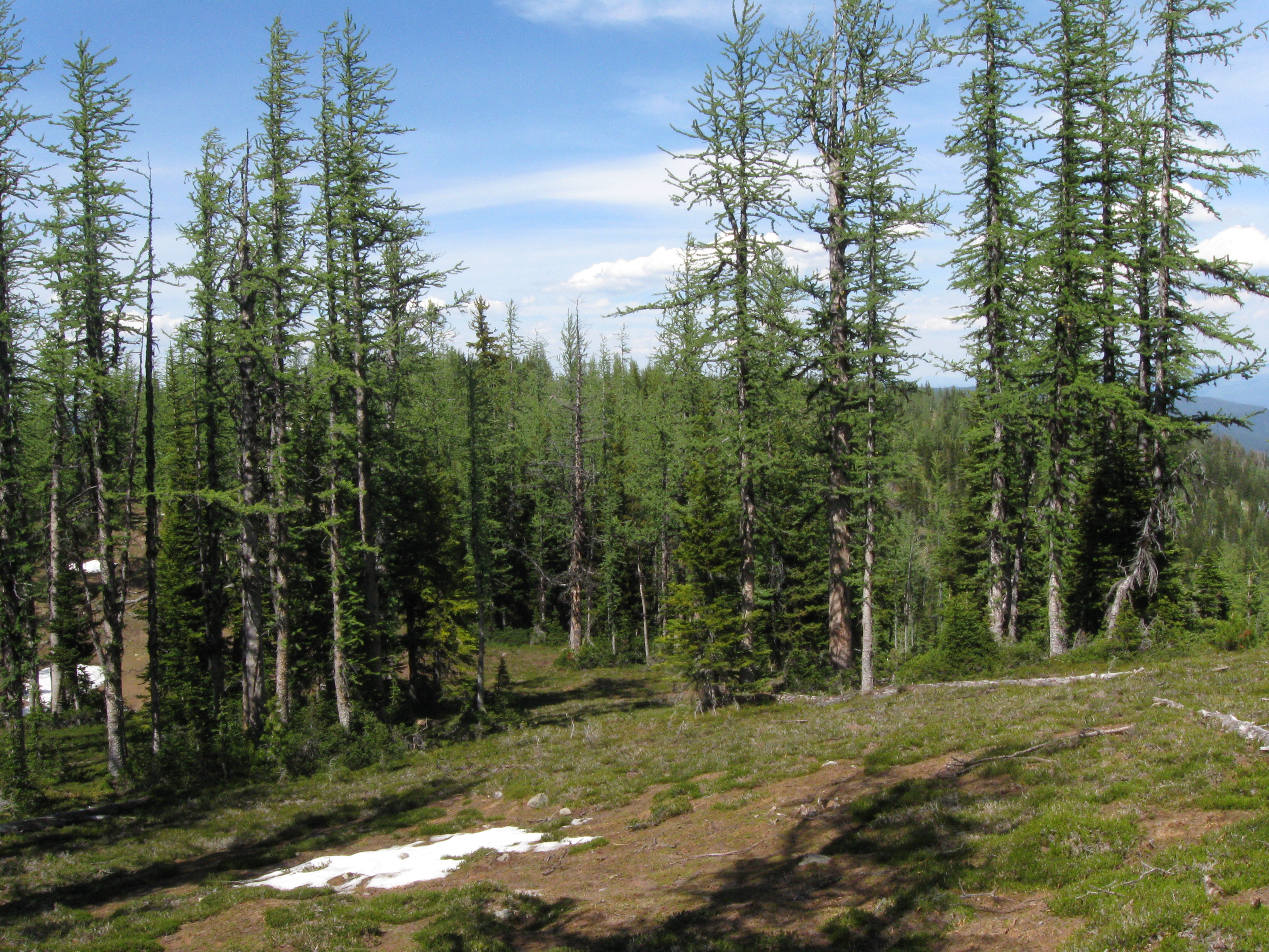 Larix lyallii forest. Mount Frosty, E. C. Manning Provincial Park, British Columbia.